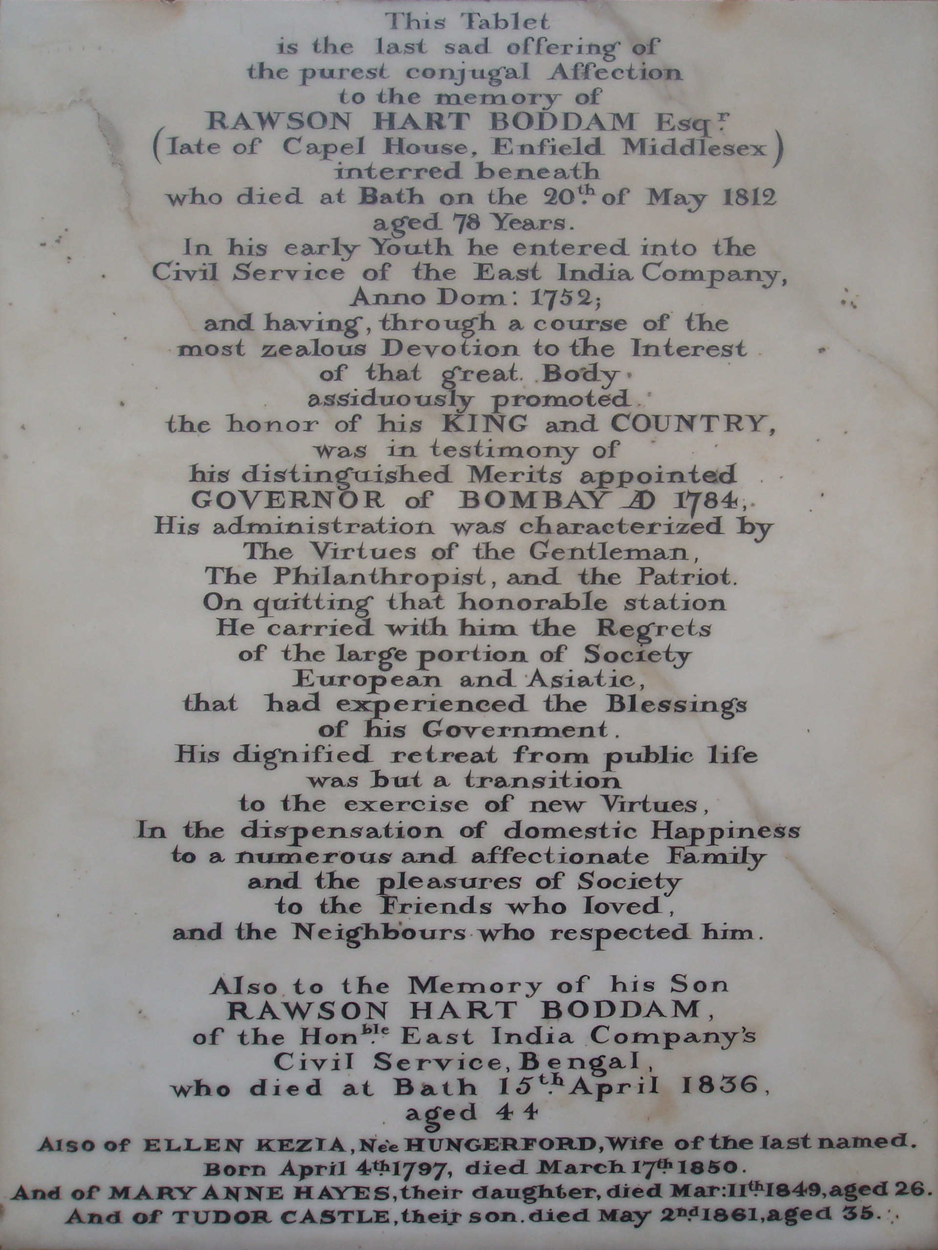 Photograph of the epitaph in Bath Abbey of The Hon. Rawson Hart Boddam, the twenty-fourth Governor of Bombay under the British East India Company.